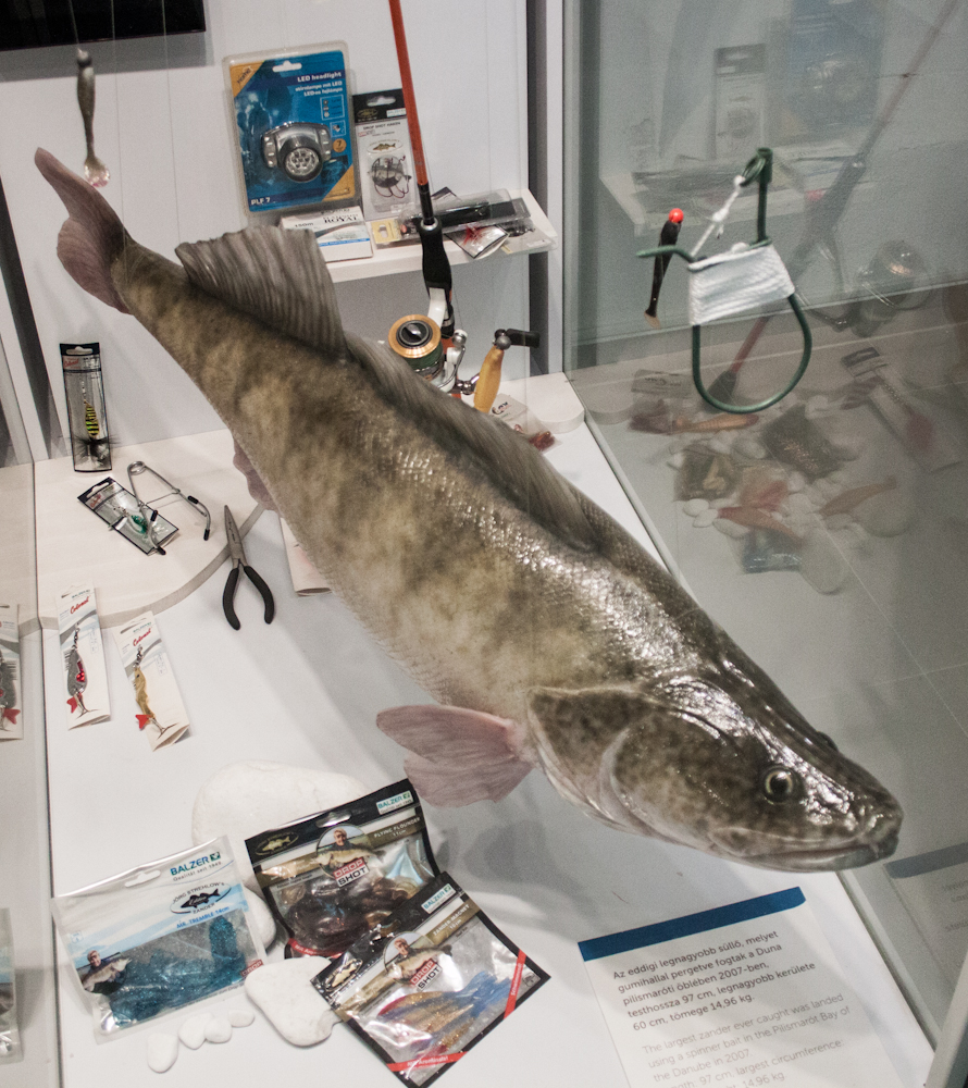 Record size zander,_Location - Danube at Pilismarót; length - 97 cm, largest circumference - 60 cm, weight - 14,96 kglabel QS:Len,"Record size zander,_Location - Danube at Pilismarót; length - 97 cm, largest circumference - 60 cm, weight - 14,96 kg" label QS:Lhu,"Rekordméretű süllő a Dunából (Pilismarót), hossz 97 cm, kerület 60 cm, súly 14,96 kg"